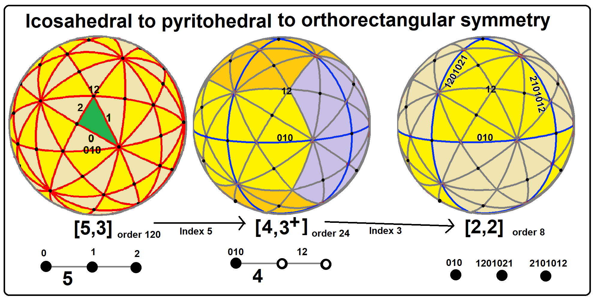 Pyritohedral symmetry in Icosahedral symmetry and related generators